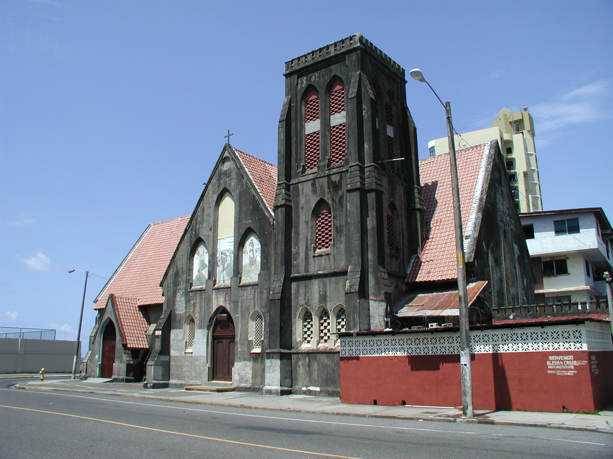 The old Christ Church by the Sea in Cristobal, taken in 2003.